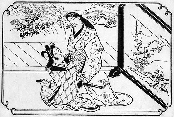 Early woodblock by Hishikawa Moronobu, provenance unknown.